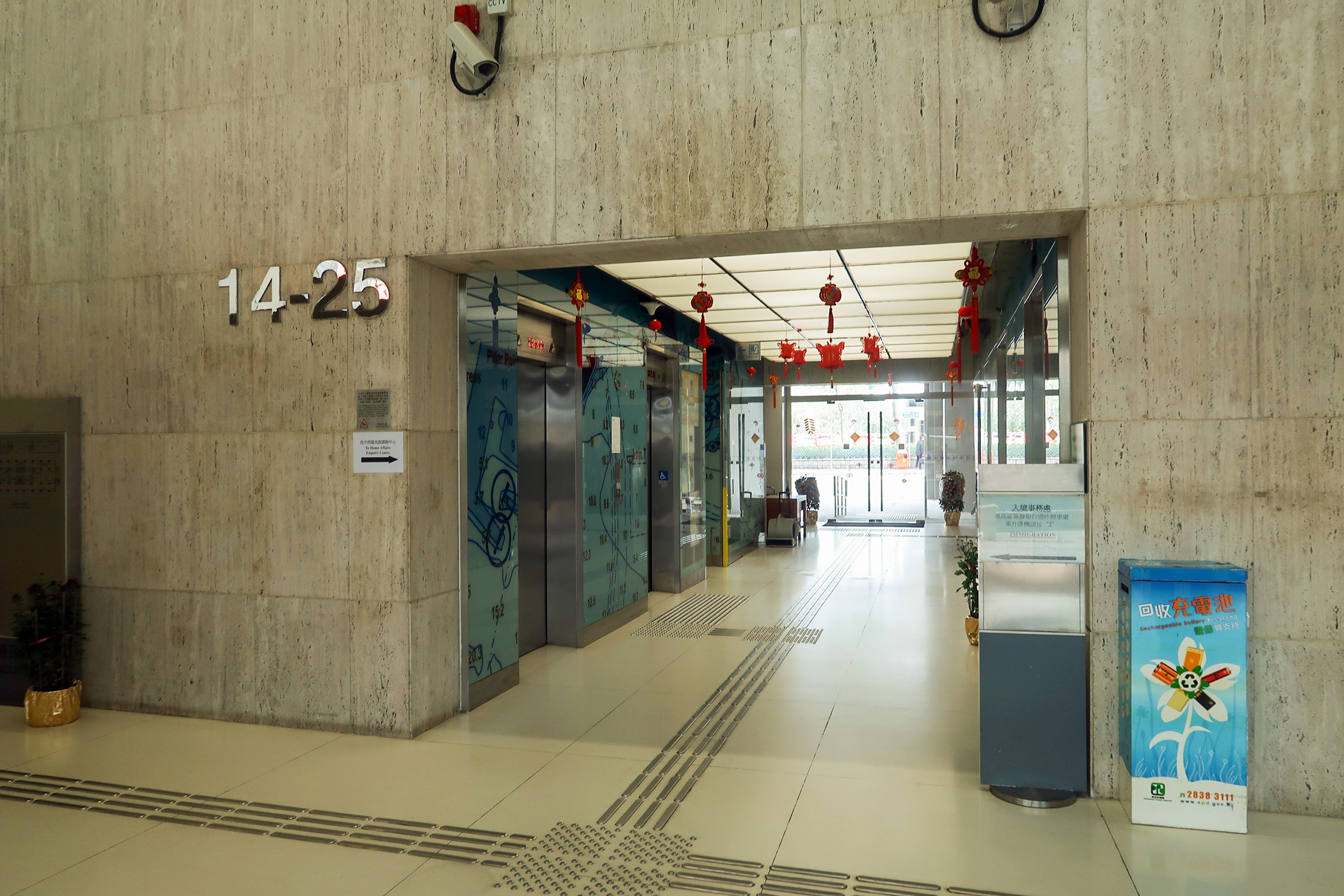 Harbour Building lobby